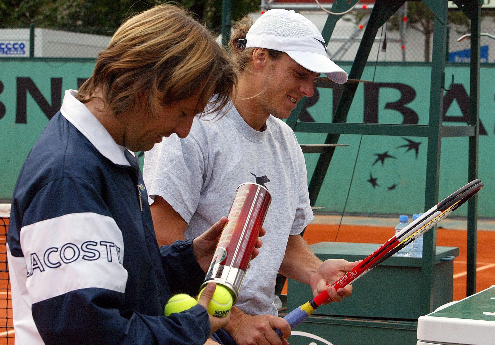 franco davin